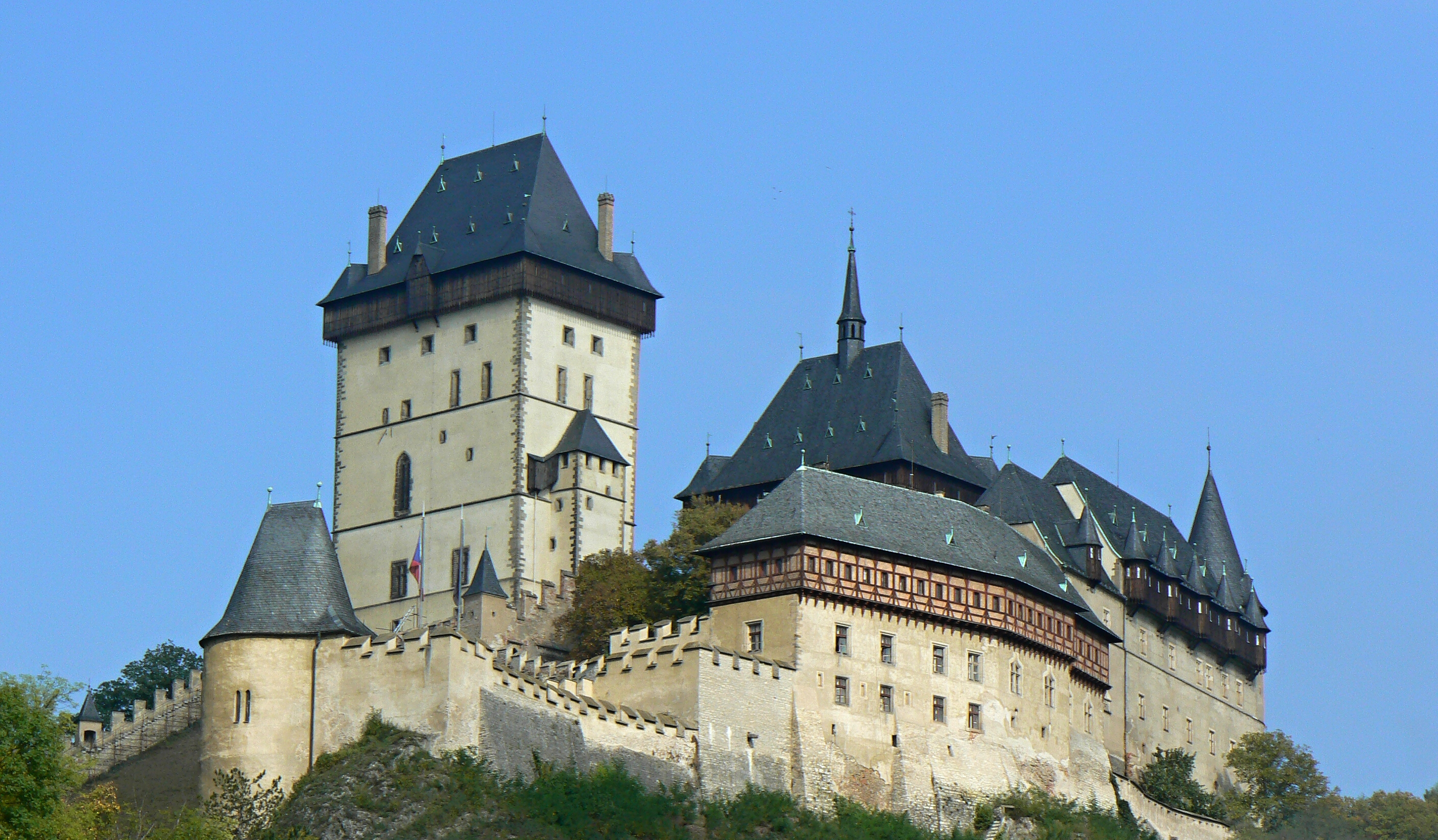 Famous castle is dominant in national nature reserve Karlštejn, Beroun District